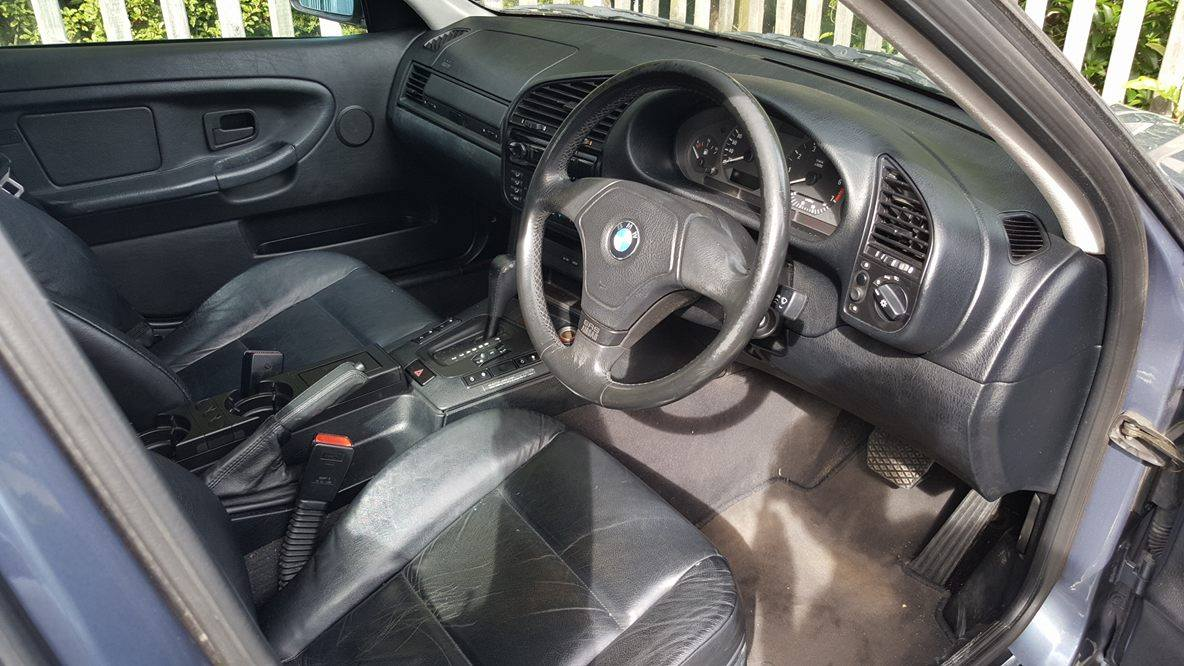 interior of an E36 (328 Touring)